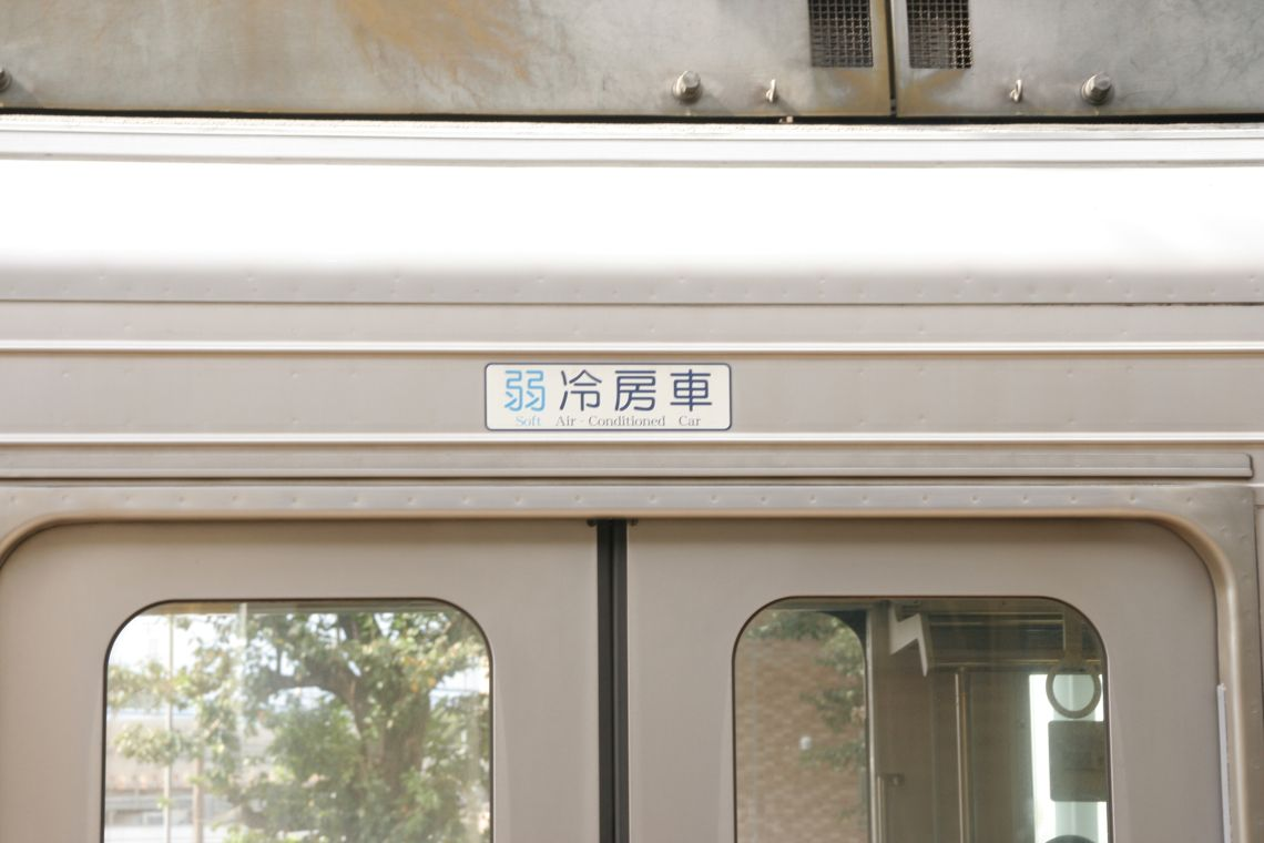 Odakyu's Soft ar conditioned car sign